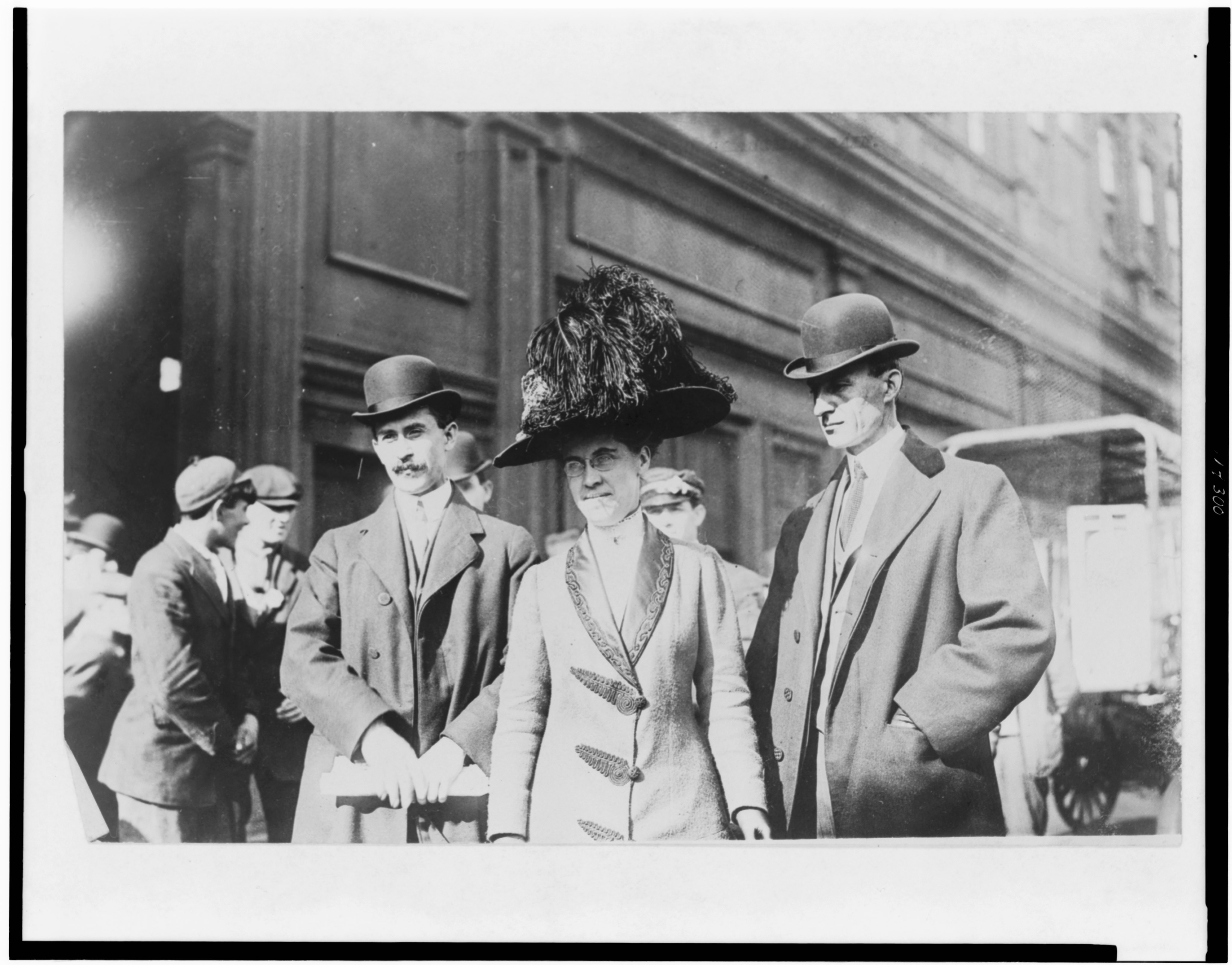 Title: Orville Wright, William Wright, and Katharine Wright, half-length portraits, standing outdoors Abstract/medium: 1 photographic print.